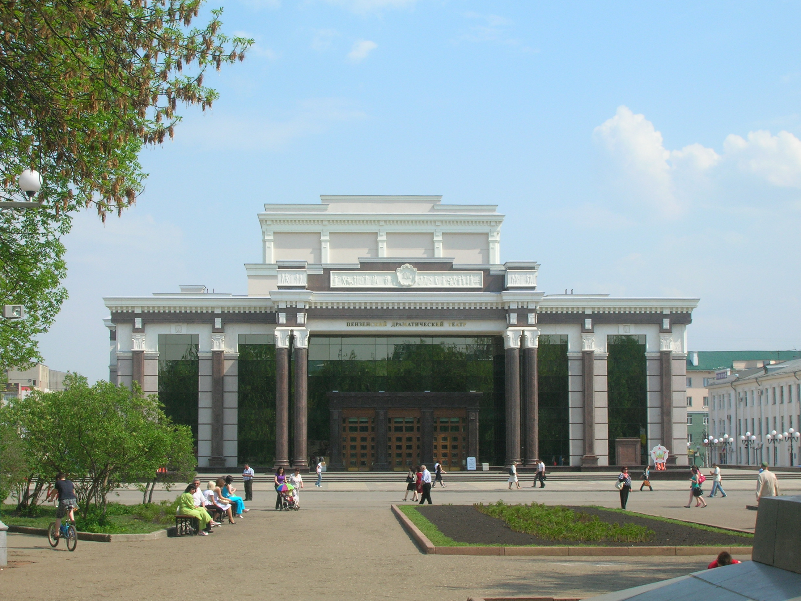 The new building of the Penza Drama Theatre.